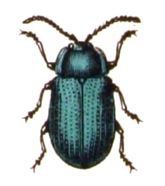 Phratora vitellinae, from Calwer's Käferbuch, Table 44, Picture 19. Taxonomy was updated to 2008, using mostly the sites Fauna Europaea and BioLib. Please contact Sarefo if the determination is wrong!